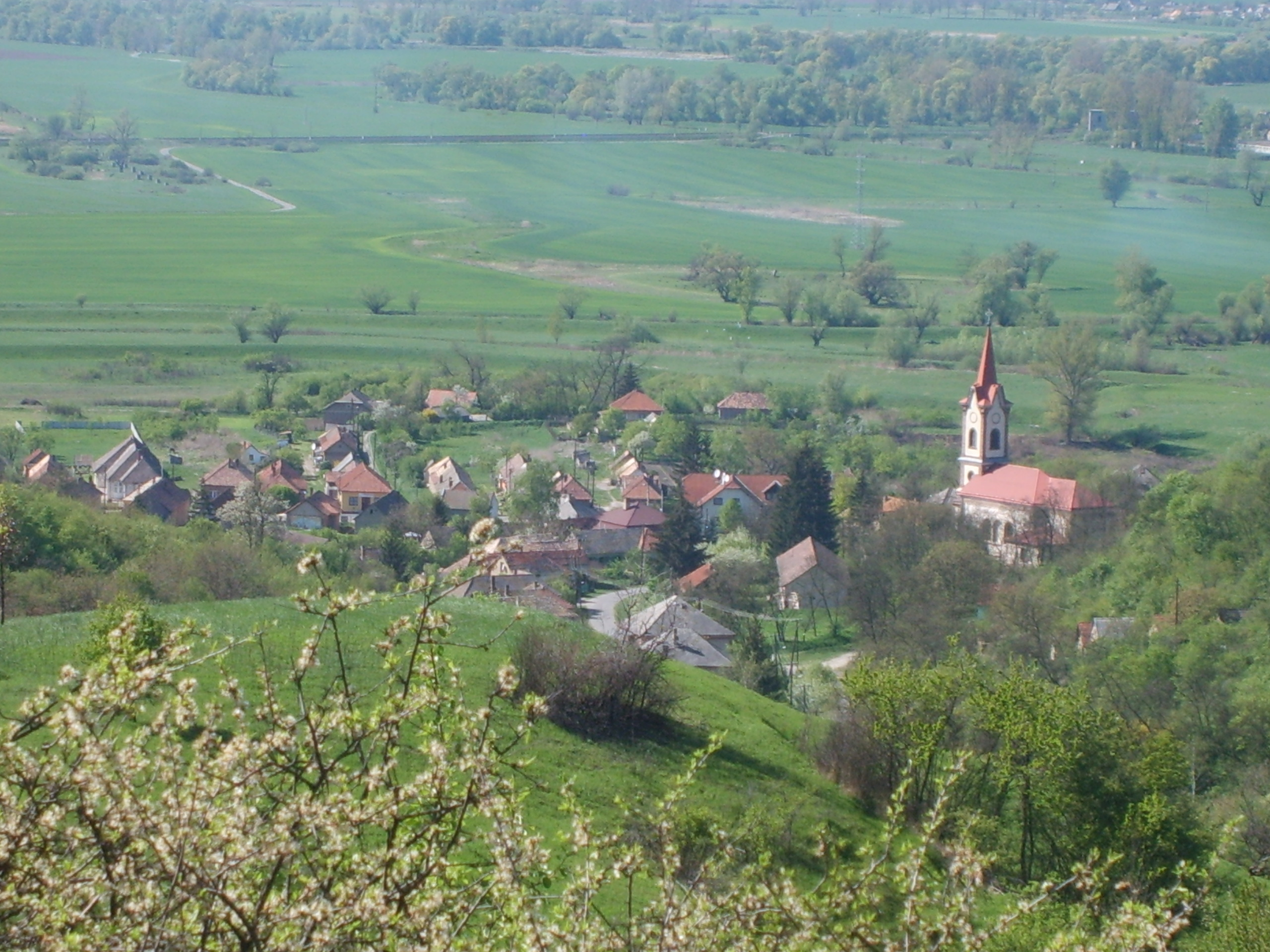 Village Sajónémeti